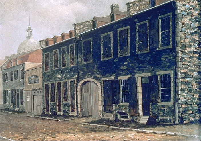 Painting, Typical Buildings on St. Amable Street, Montreal, Henry Richard S. Bunnett, 1885-1889, Oil on canvas, 25.7 x 36 cm